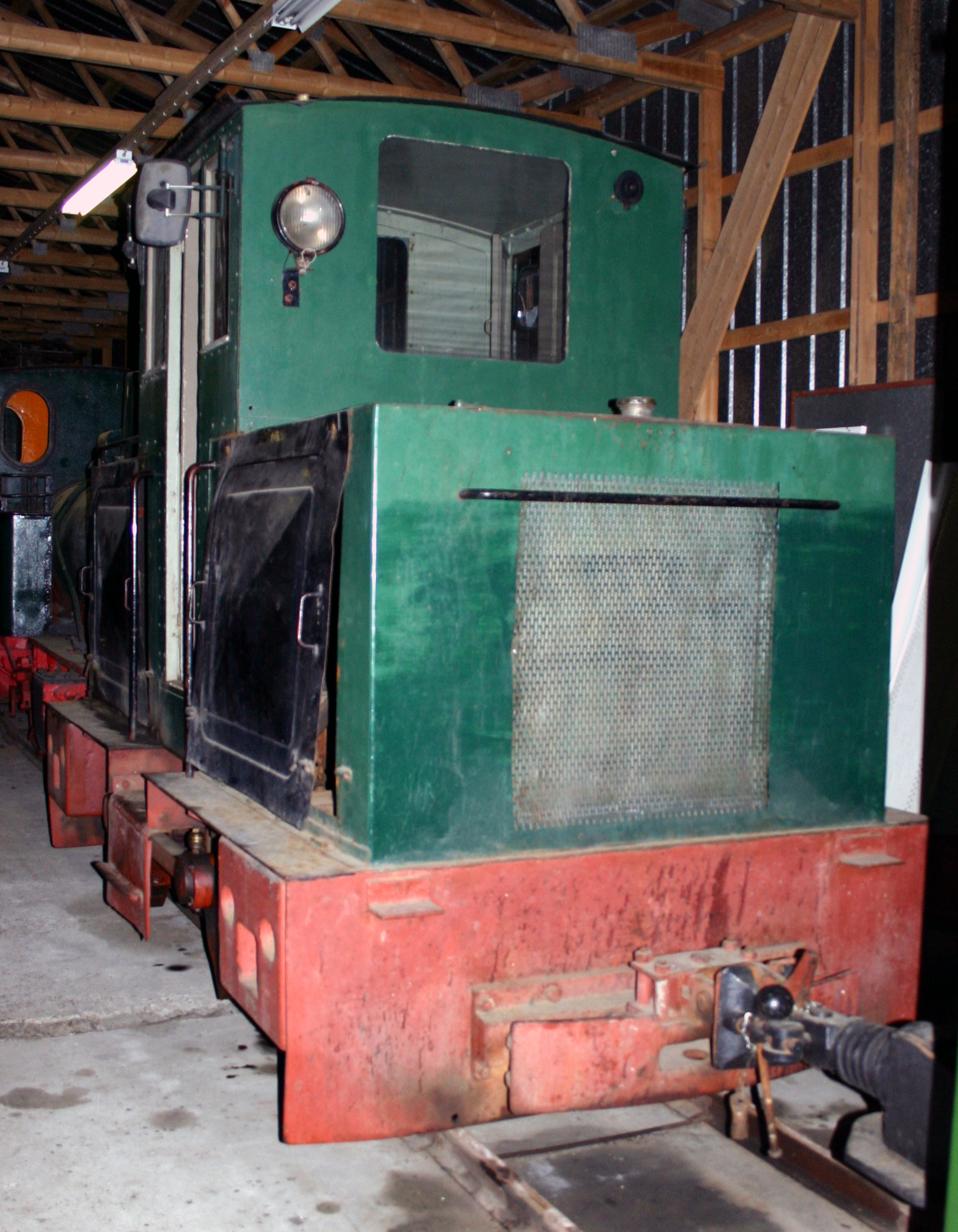 Äänekoski–Suolahti railway train locomotive